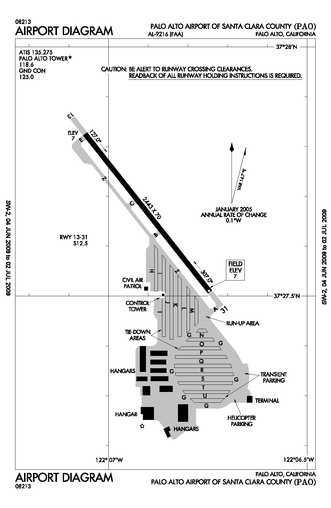 FAA airport diagram for PAO (Palo Alto Airport of Santa Clara County) in California, United States.